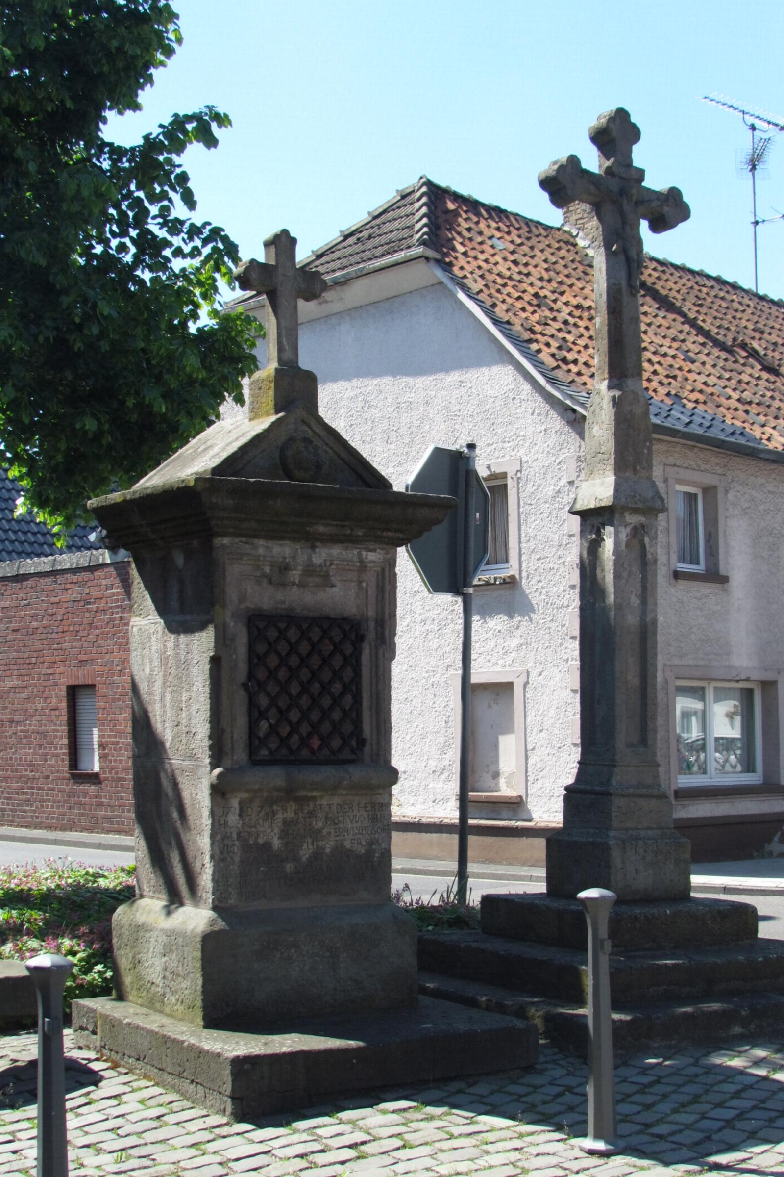 This is a photograph of an architectural monument.It is on the list of cultural monuments of Korschenbroich